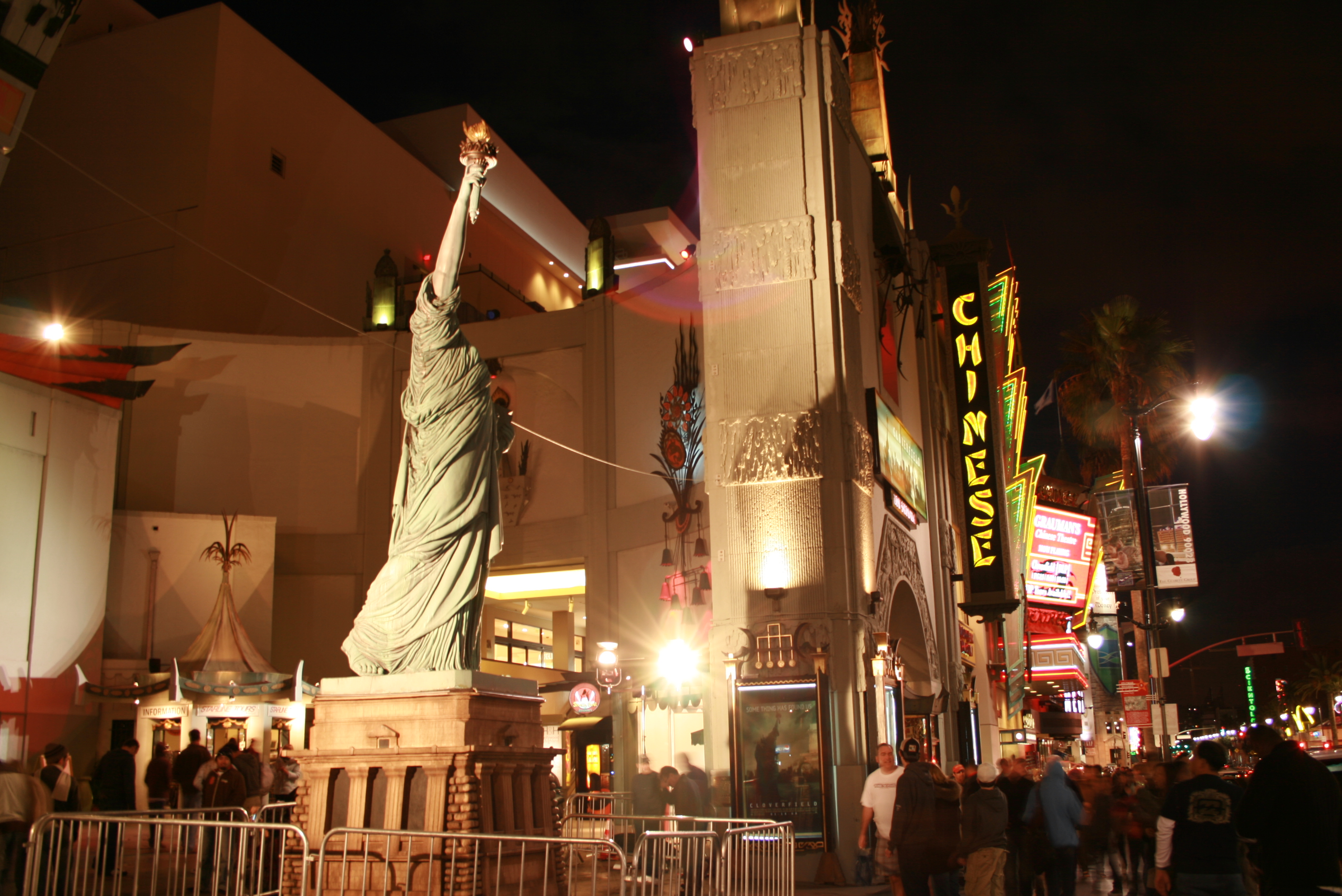 Cloverfield premiere at Hollywood